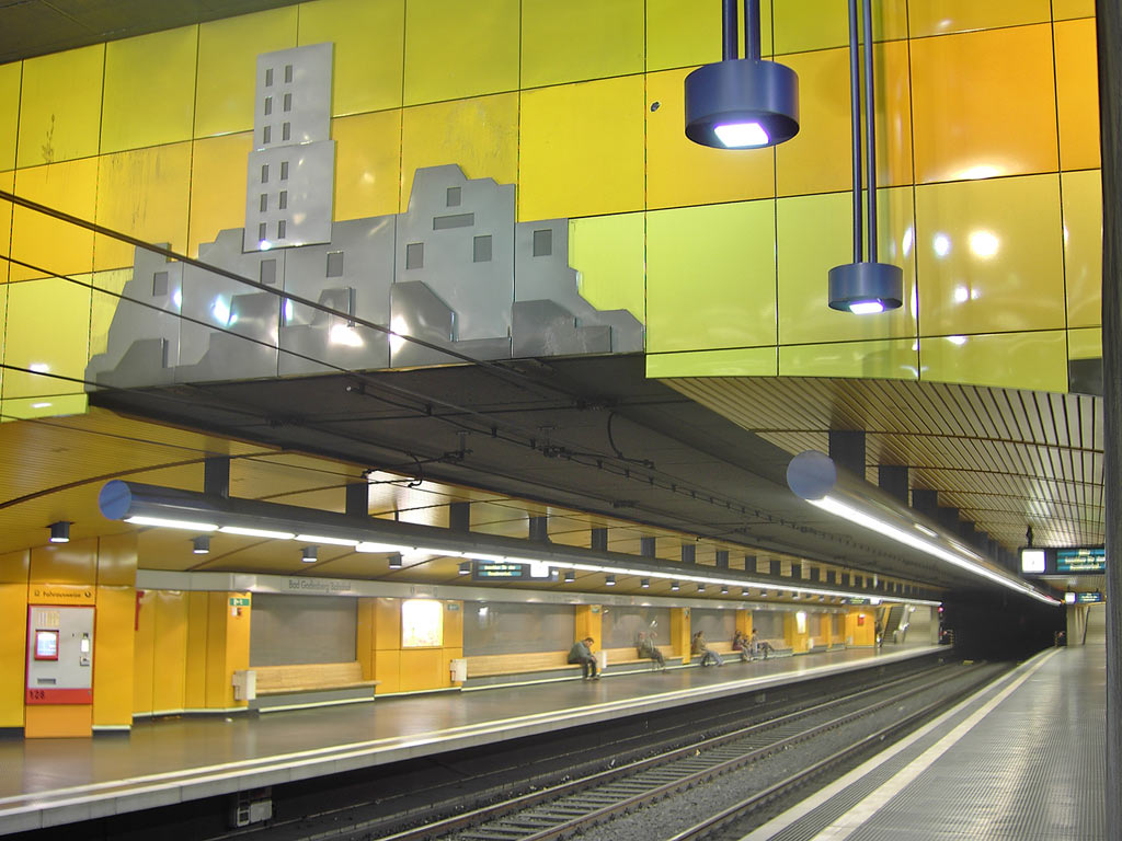 Underground station Bad Godesberg Bahnhof in Bonn